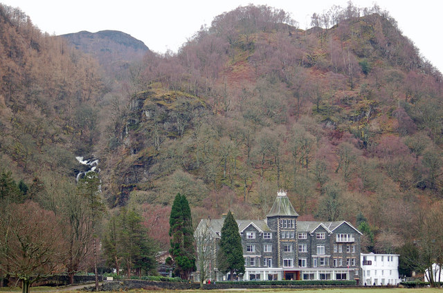 Lodore Falls Hotel, Derwentwater The Falls are visible to the left of the hotel